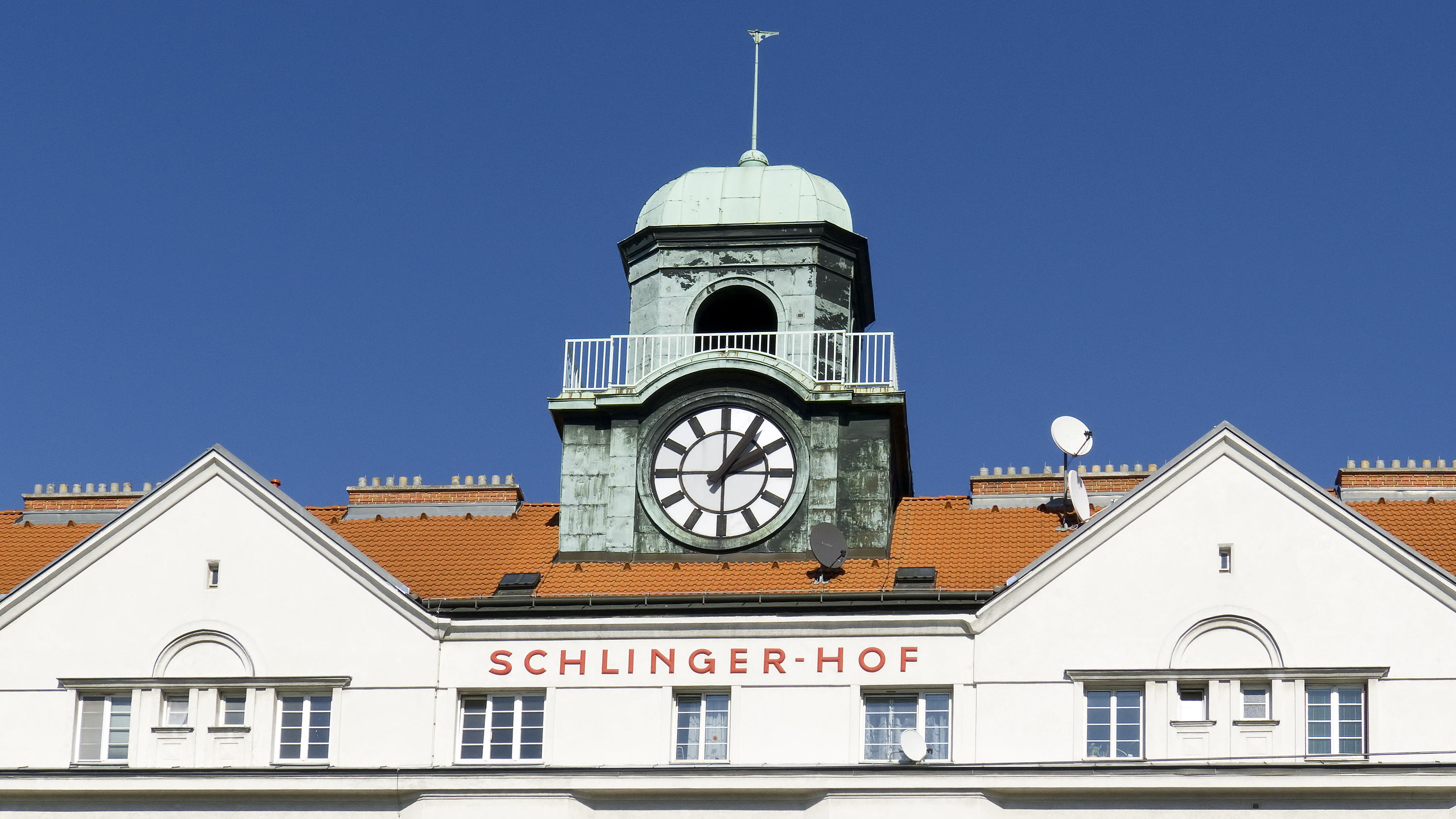 Residential building Schlinger-Hof in Vienna 21